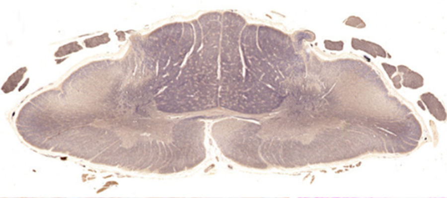 Wallerian degeneration of anterior and particulary lateral fasciculi of spinal cord (level of C7 spinal segment) in patient with ALS-FD-complex. Atrophy of anterior root.